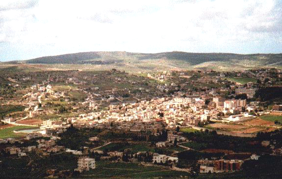 I took this picture in the summer of 2002 when I travelled to Lebanon. I am releasing all copyrights to the public. Email me with any questions at willis&@gmail.com